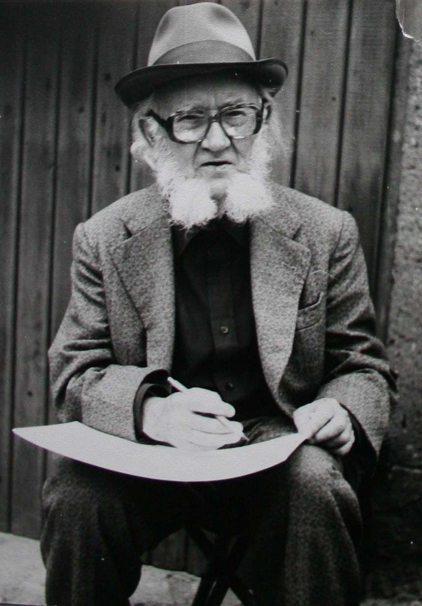 German painter Otto Müller sketching in city quarters of Halle, Saxony-Anhalt, marked for demolition; ca. 1975.